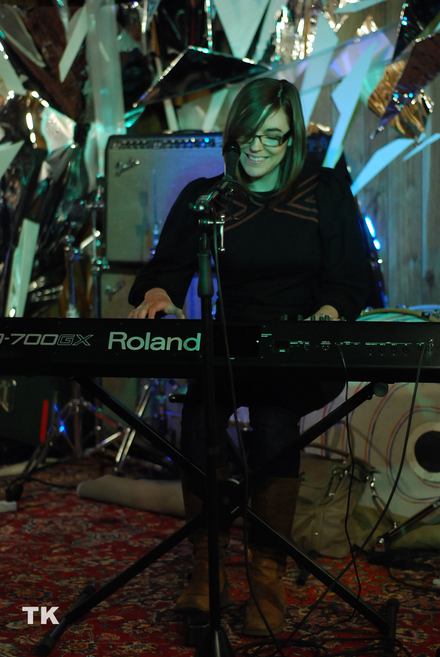 Valery Gore at Sonic Boom's annual Record Store Day celebration